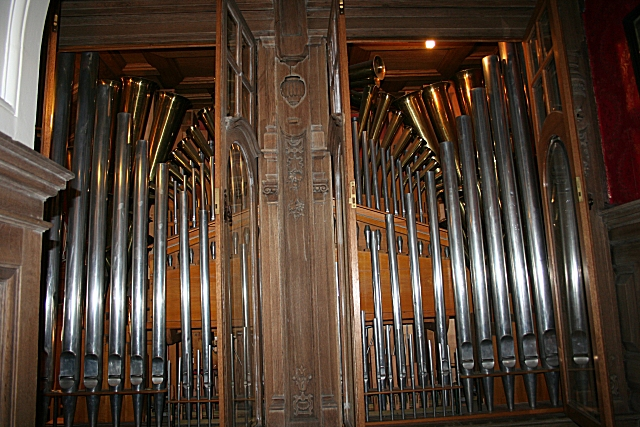 Orchestrion The organ pipes which produce most of the orchestral sound are built in under the stairs by the entrance hall.